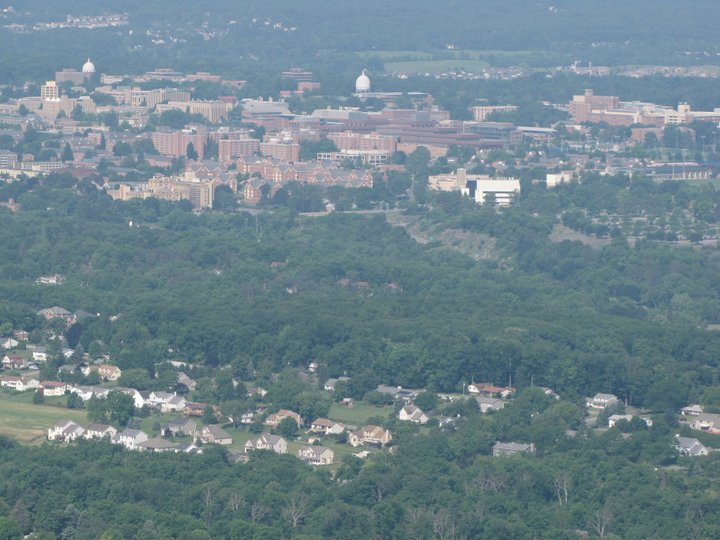 A photo of State College, PA taken by Raja Neela.